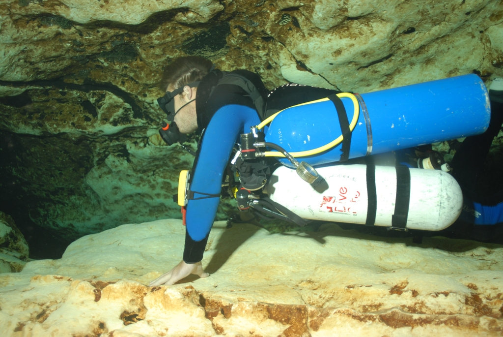 Left side view of sidemount diver in cave